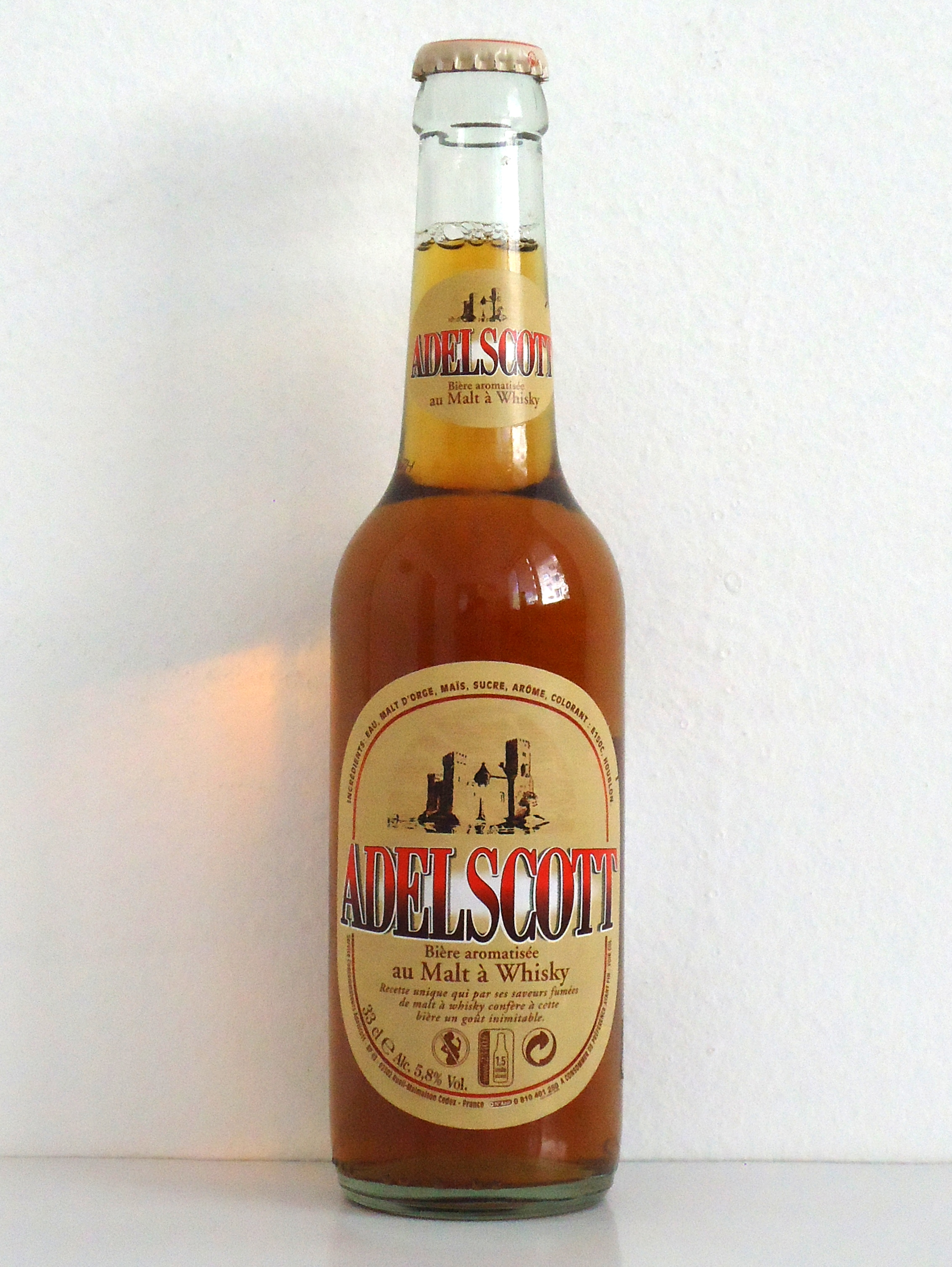 Adelscott beer